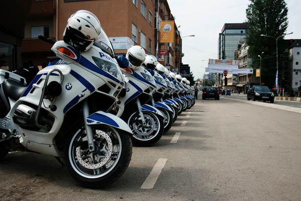 Motorcycles Unit